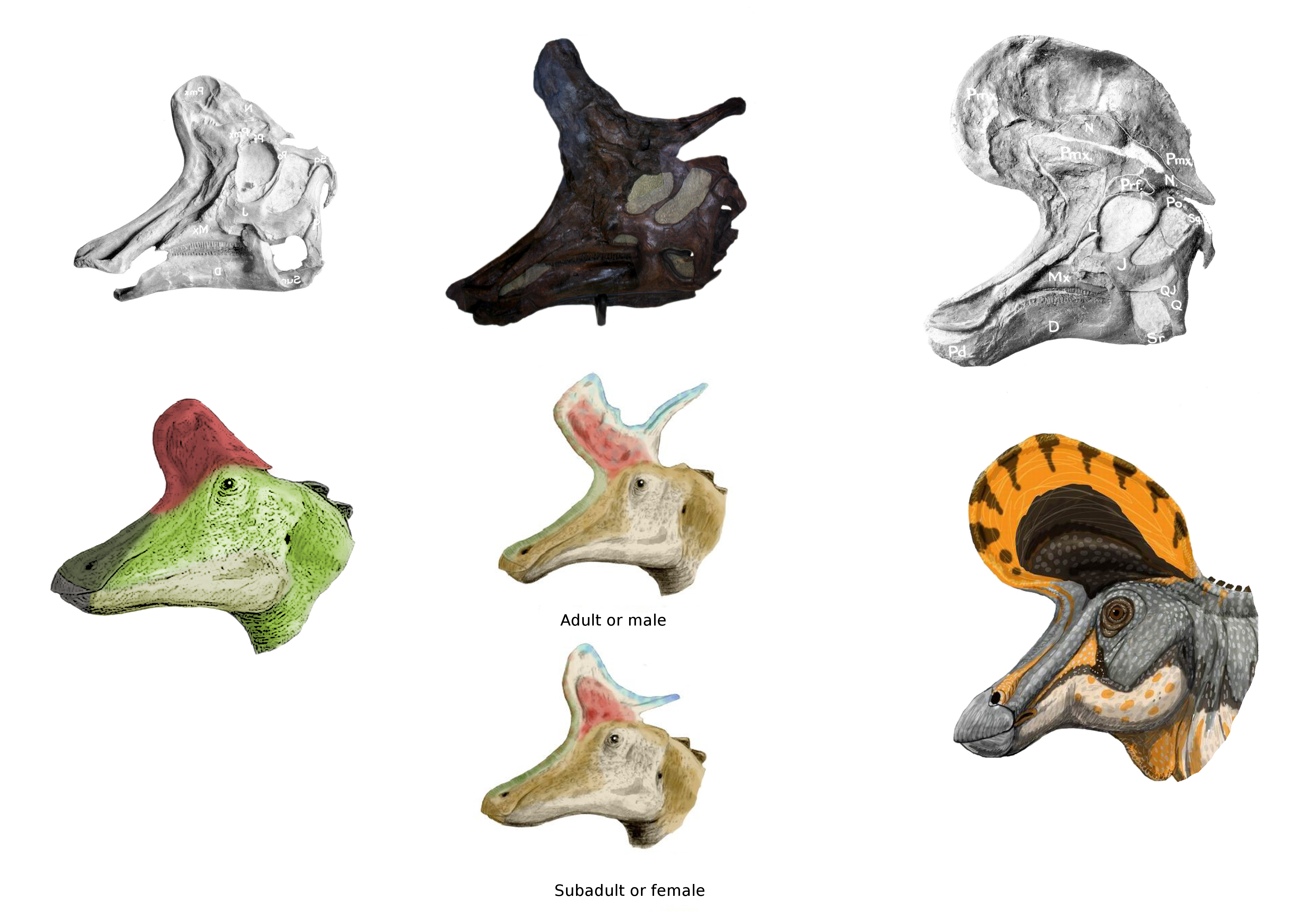 Comparison of different Lambeosaurus species. From left to right: Lambeosaurus clavinitialis, Lambeosaurus lambei and Lambeosaurus magnicristatus.